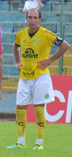 DSC_0125 (Copy)